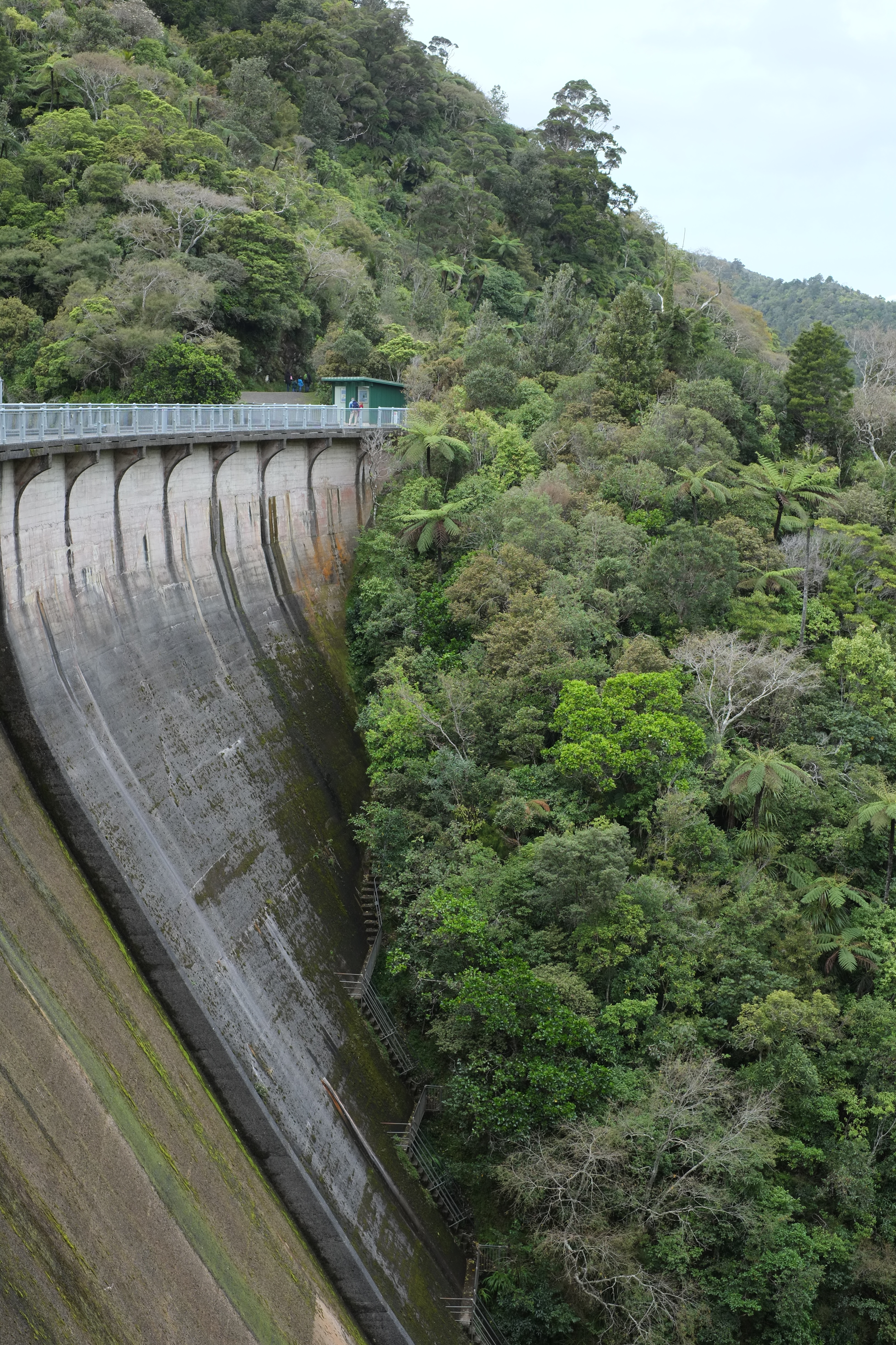 Upper Nihotupu Dam with steep steps up its face